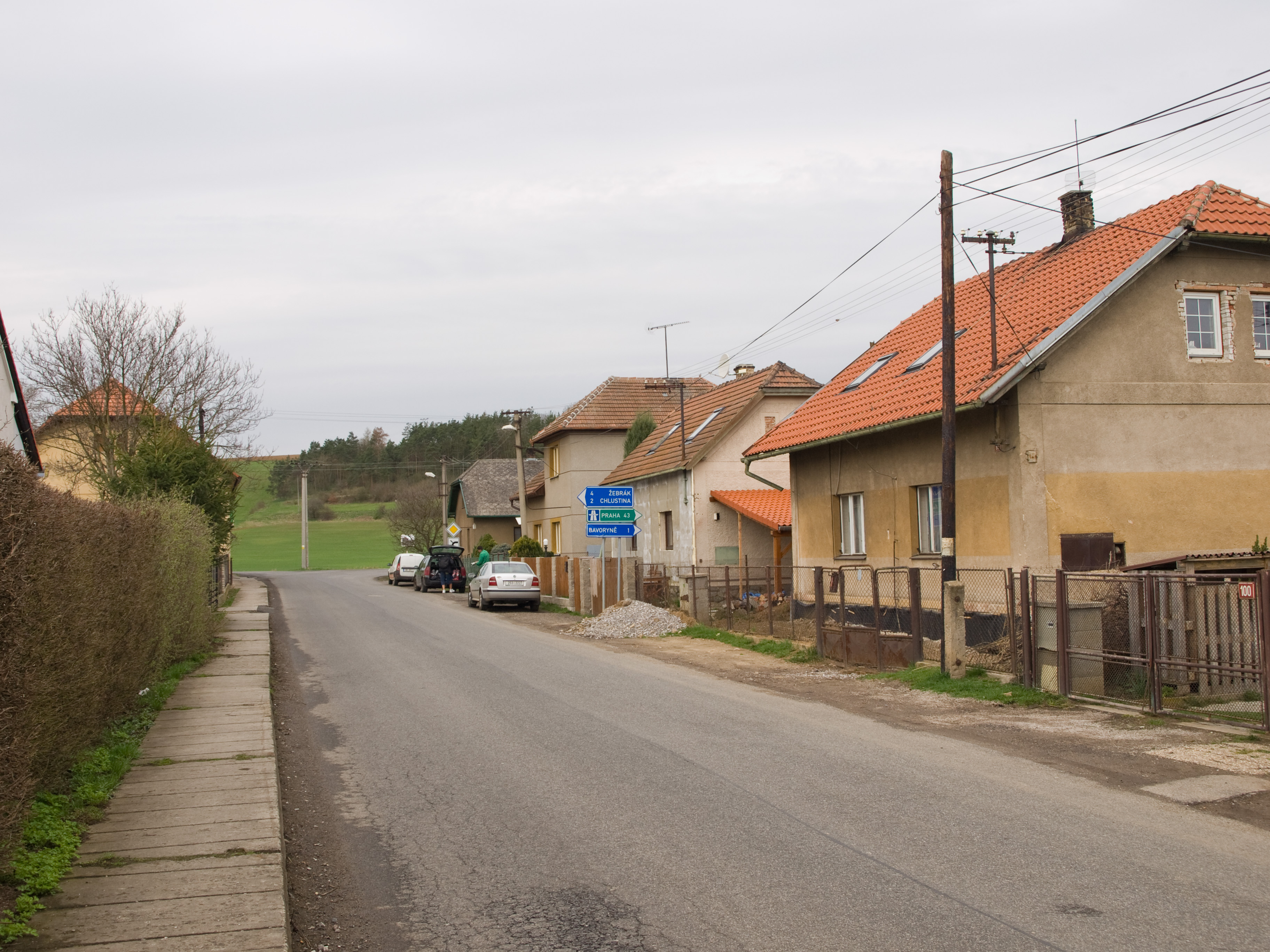 Stašov, okres Beroun, Středočeský kraj, Česká republika